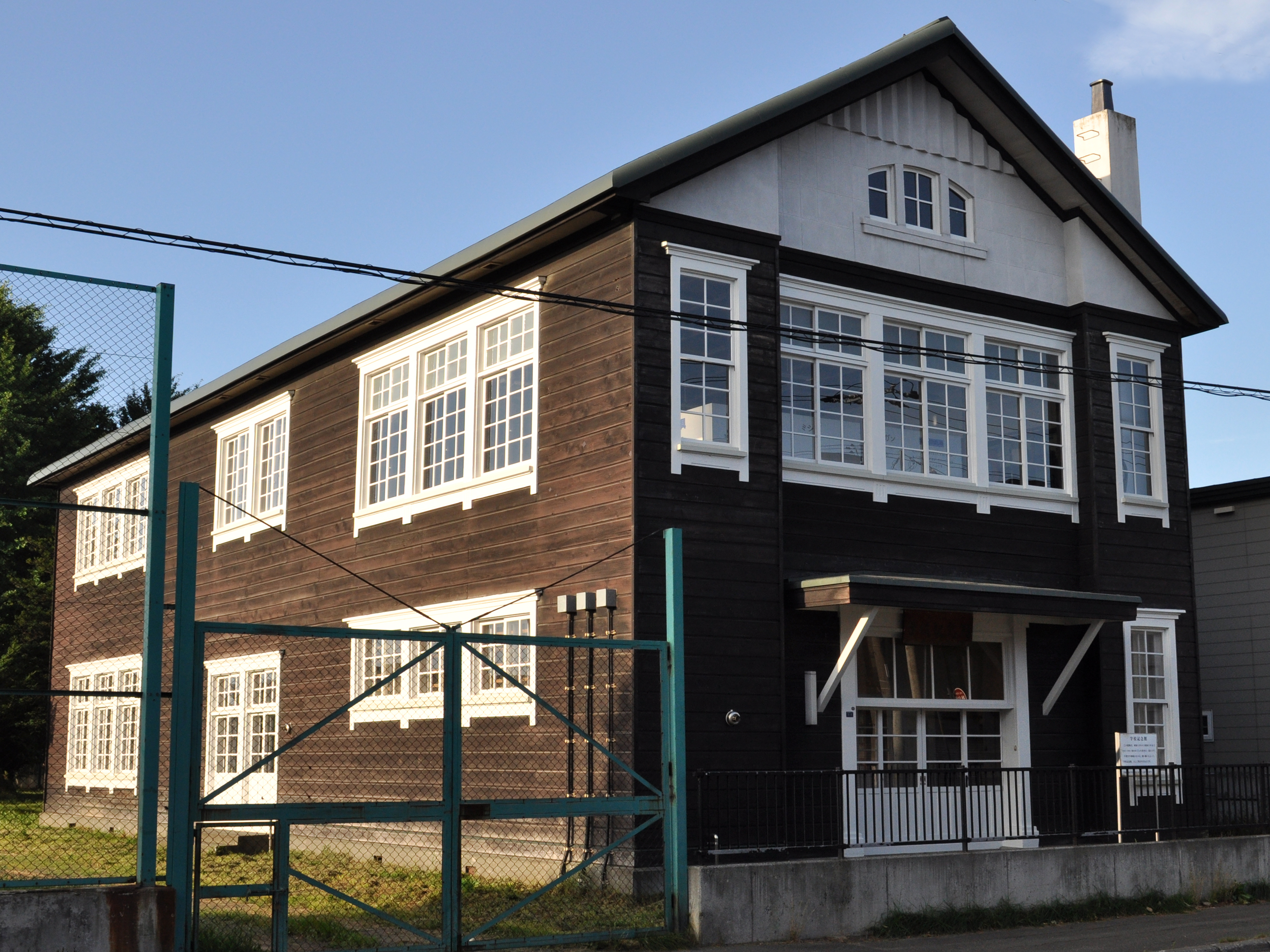 Preserved school building as a memorial of Naebo Elementary School in Higashi-ku, Sapporo, Japan. It was used from 1937 to 1978. It is the only wooden school building existing in Sapporo.